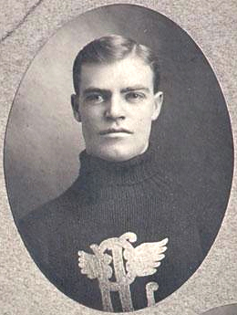 Canadian ice hockey player Bernard "Barney" Holden of the 1906–07 Portage Lakes Hockey Club.